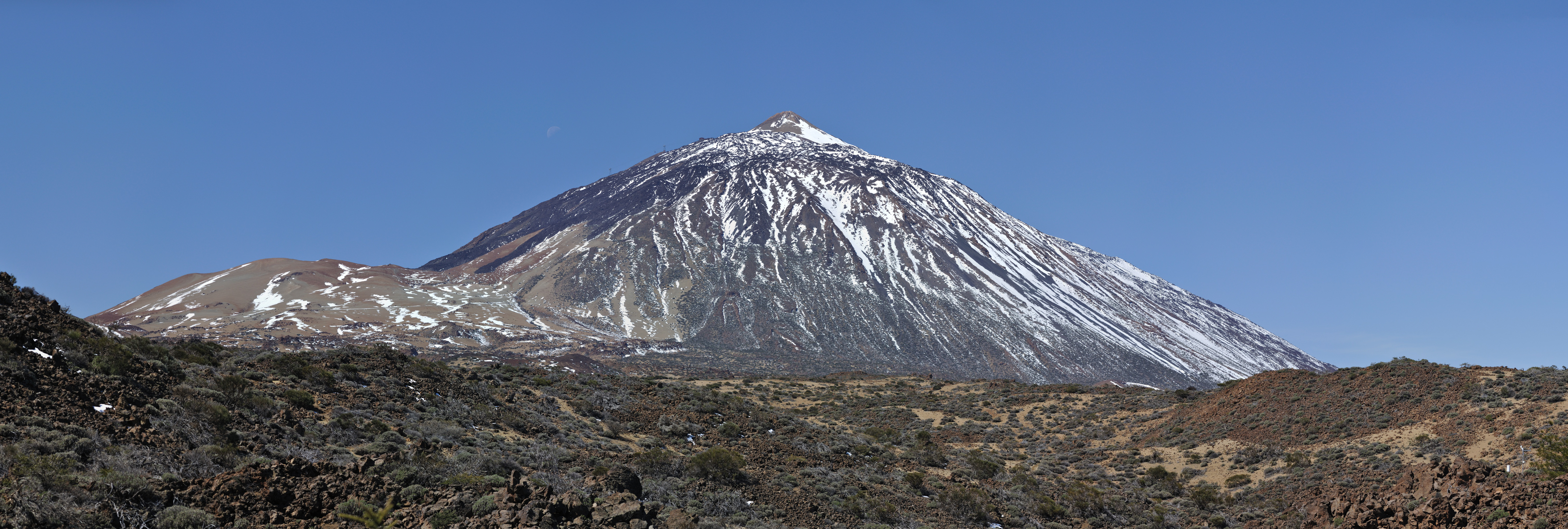 Northeast side of Teide, Tenerife, Spain, as seen from the crater boundary near the visitor center. Panorama from 20 single images